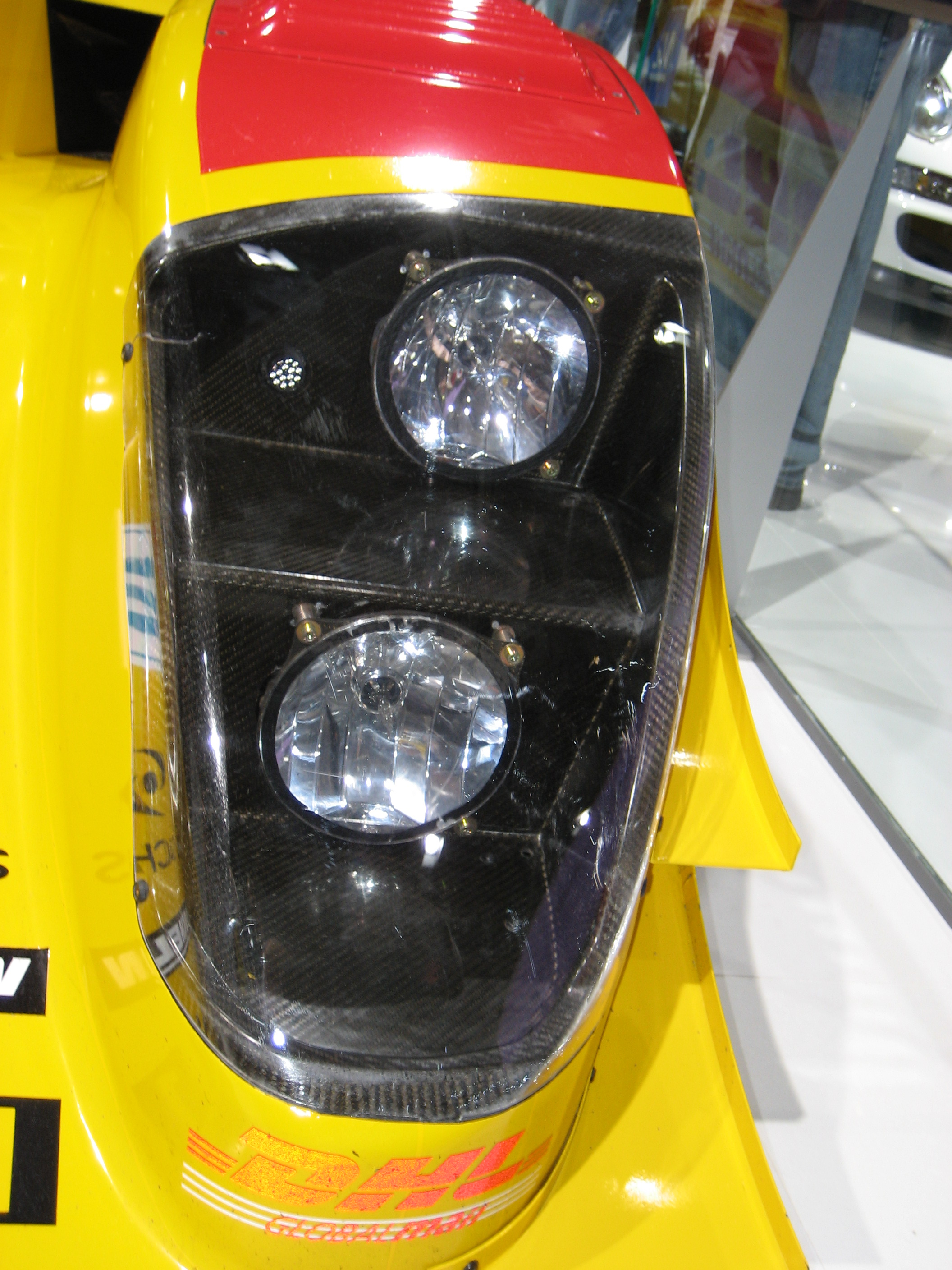 Headlight on the Porsche RS Spyder at the 2007 Detroit Auto Show.